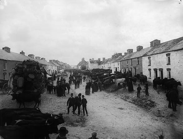 1 negative : glass, dry plate, b&w ; 16.5 x 21.5 cm.